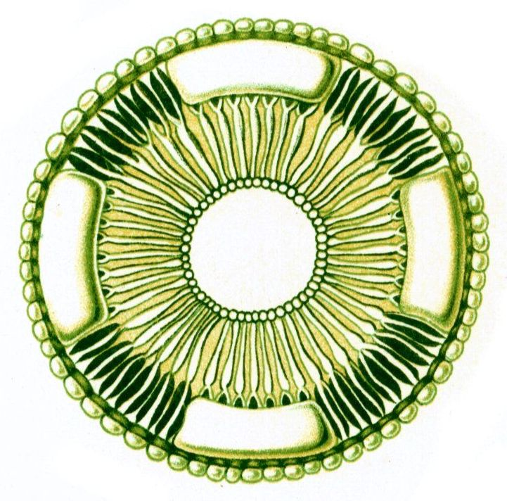 Neomeris kelleri (Cramer) = Neomeris annulata Dickie, cross-section